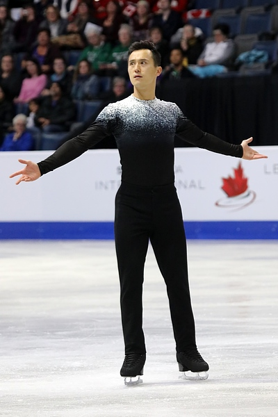 Patrick Chan during the 2017 Skate Canada International